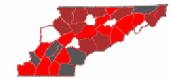 Map showing support for or against the 1861 Ordinance of Secession in East Tennessee. Counties shaded in maroon (Morgan, Scott, Anderson, Campbell, Claiborne, Blount, Sevier, Carter, Hawkins, and Johnson) voted against secession by an 80% or greater margin. Counties in red (Knox, Hamilton, Hancock, McMinn, Bradley, Cocke, Jefferson, Greene, Washington, Grainger, Roane, Bledsoe, and Marion) voted against secession by a margin falling between 51% and 79%. Counties in gray (Sullivan, Monroe, Polk, Meigs, Rhea, and Sequatchie) voted for secession. Three of the five counties in white (Unicoi, Hamblen, and Loudon) did not yet exist in 1861. There is insufficient data to categorize results from two of the five counties in white (Union and Cumberland). Public domain map courtesy of The General Libraries, The University of Texas at Austin, originally modified by English Wikipedia User:Dale Arnett.